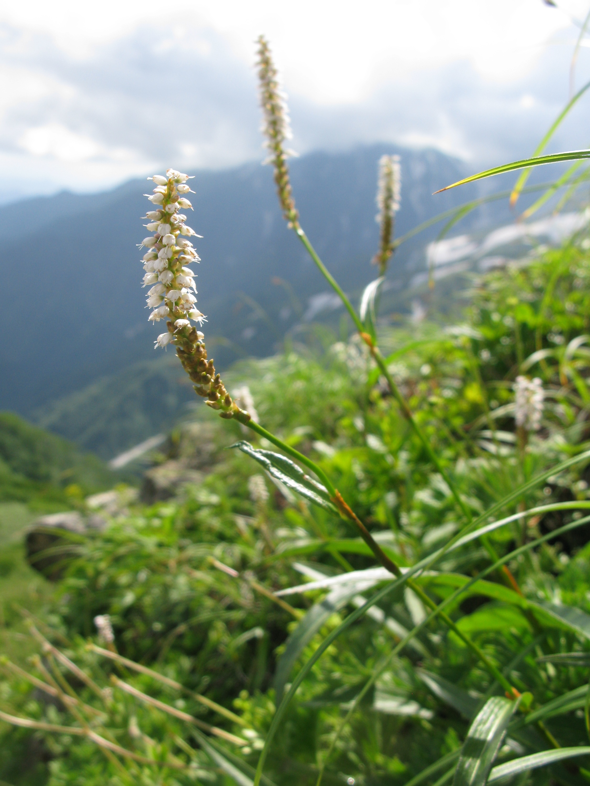 Bistorta vivipara, Mount Iide, Fukushima pref., Japan